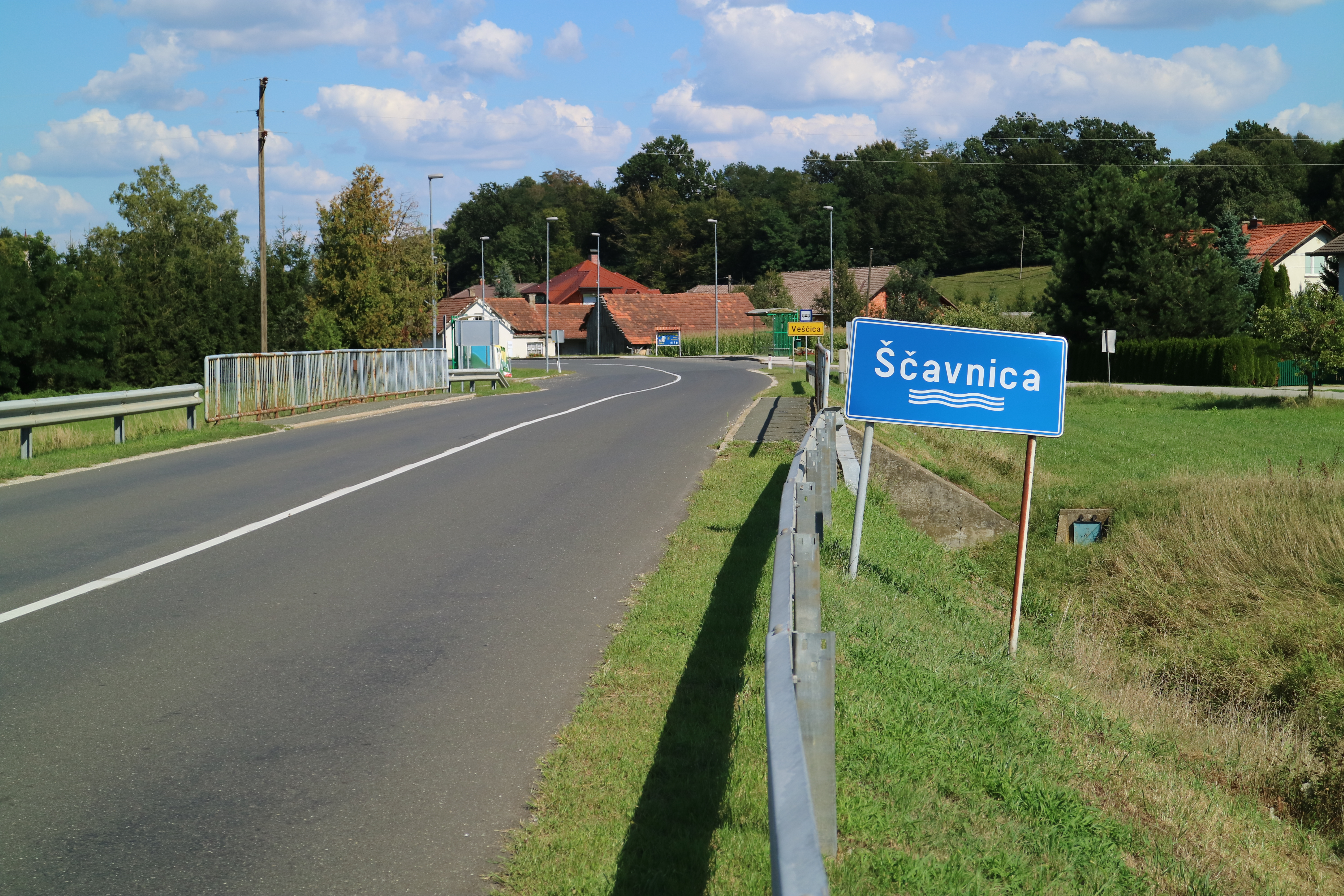 Ščavnica river sign at Veščica, Slovenia